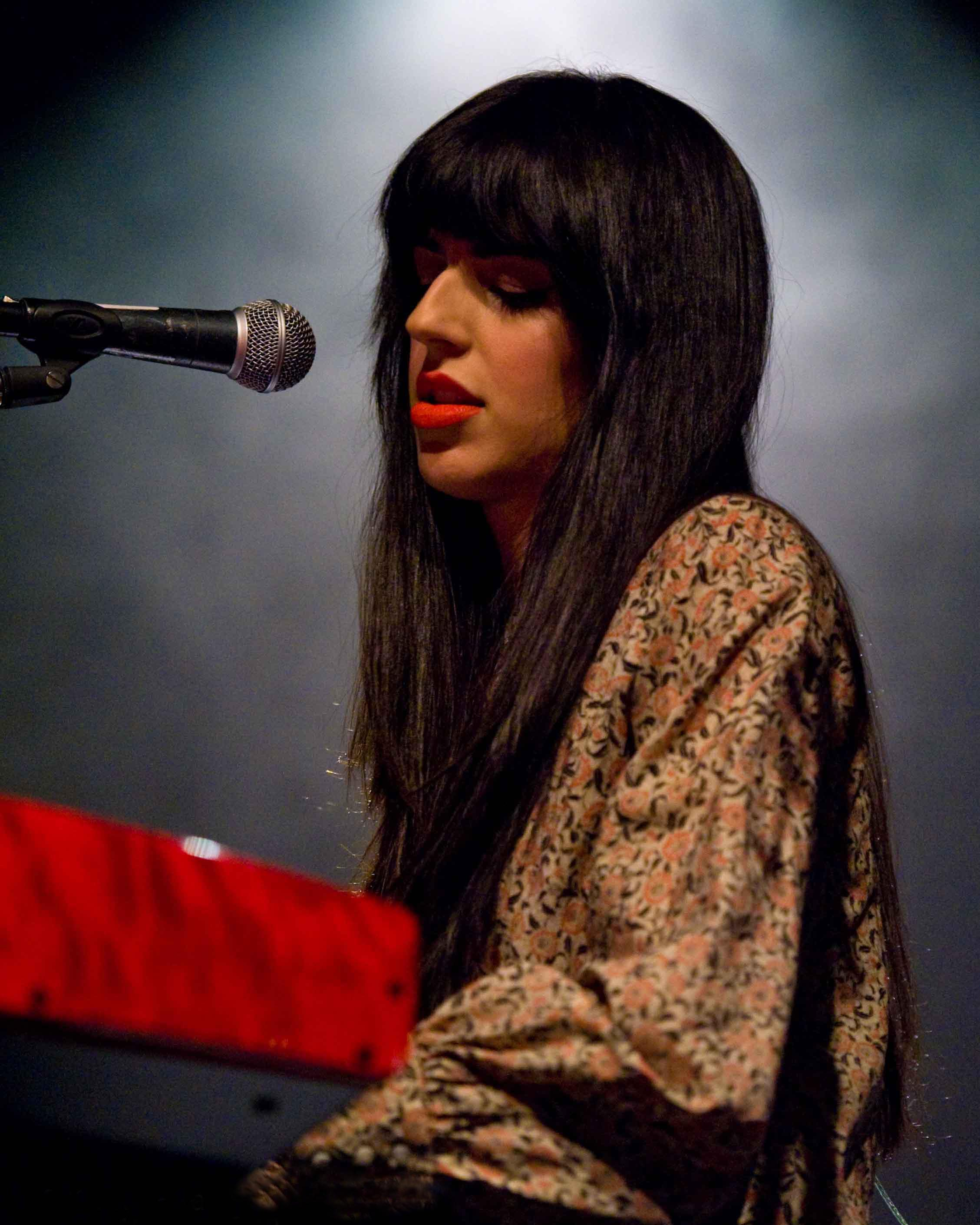 Brooke Fraser performs at The Triple Door in Seattle, Washington on December 8, 2010.